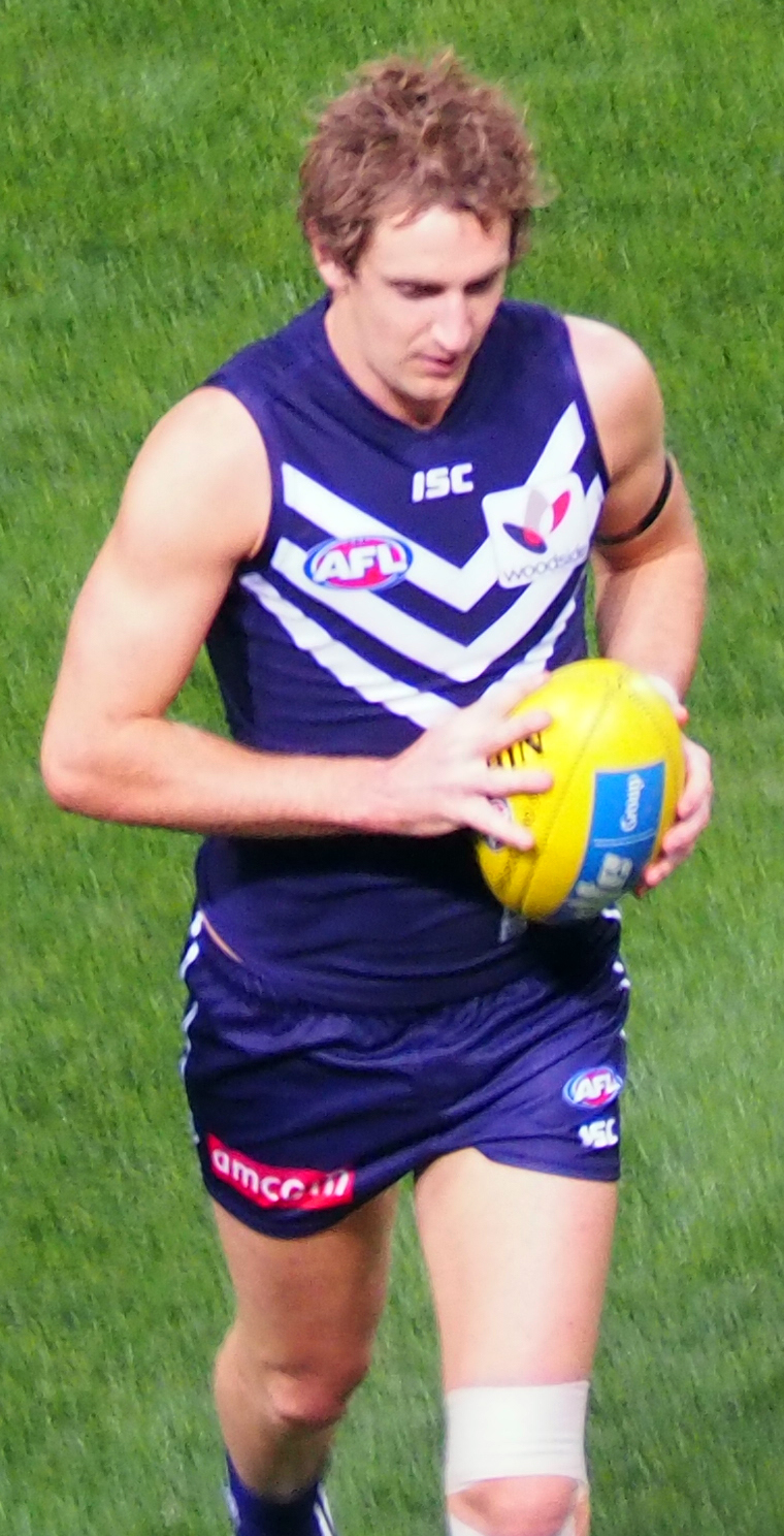 Michael Barlow playing for Fremantle Football Club at Patersons Stadium, Round 9, 17 May 2014